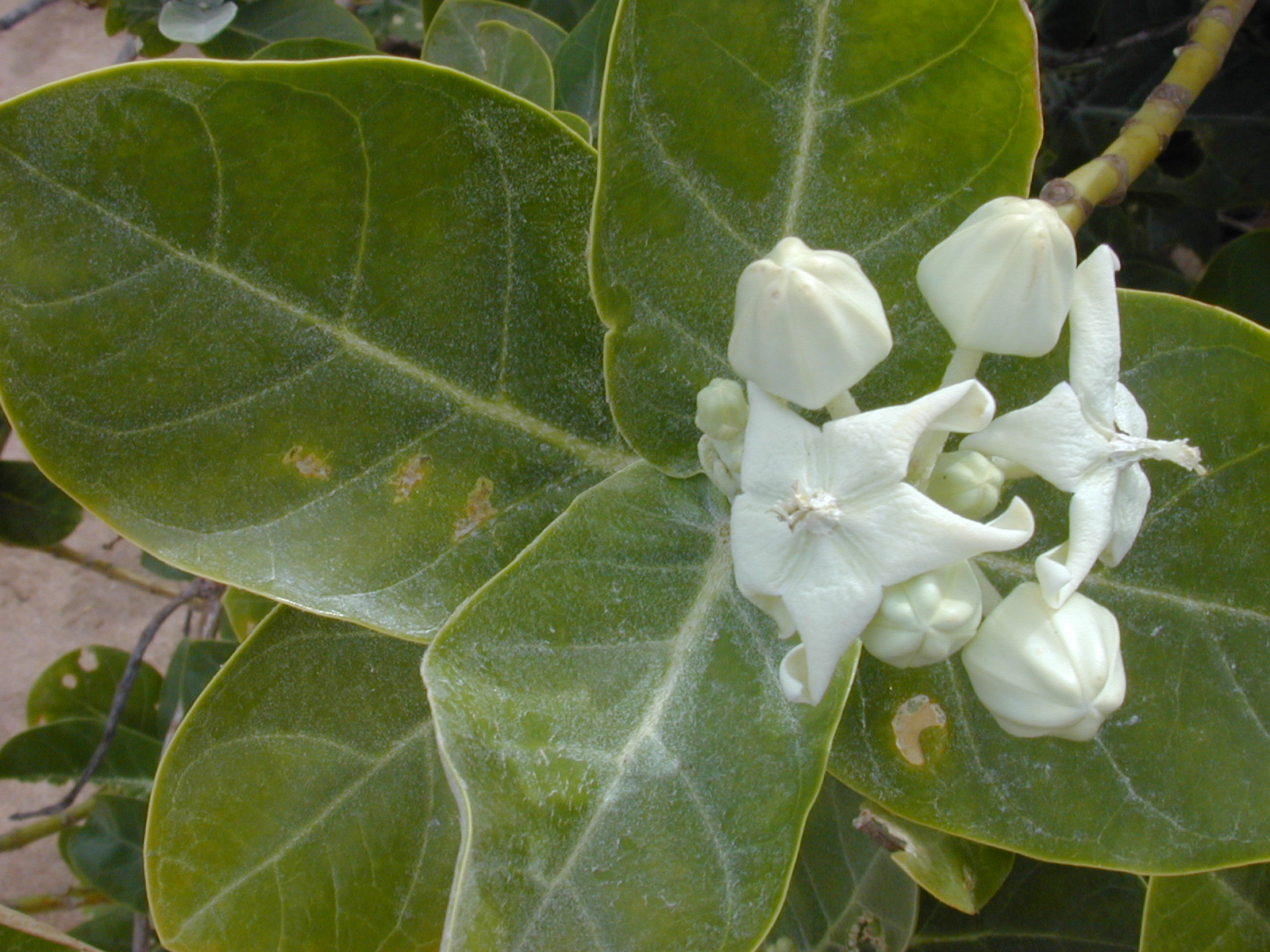 Calotropis gigantea (flowers and leaves). Location: Maui, Kalepolepo Kihei